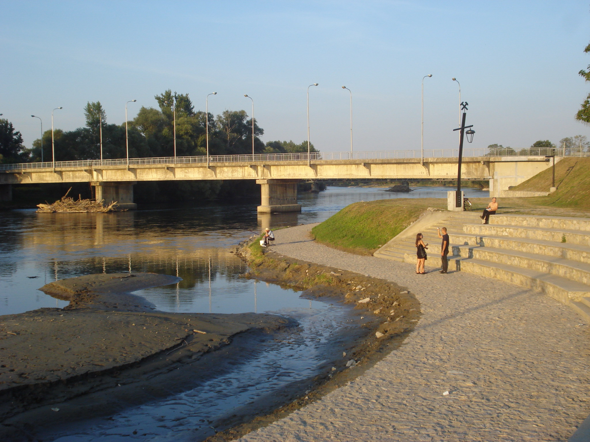 Road bridge over the Mura river in Mursko Središće, Međimurje County, Croatia - promenade